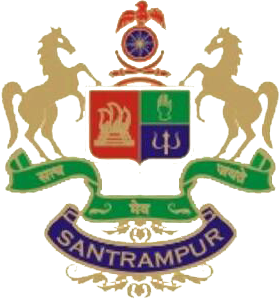 Symbol of Sant State